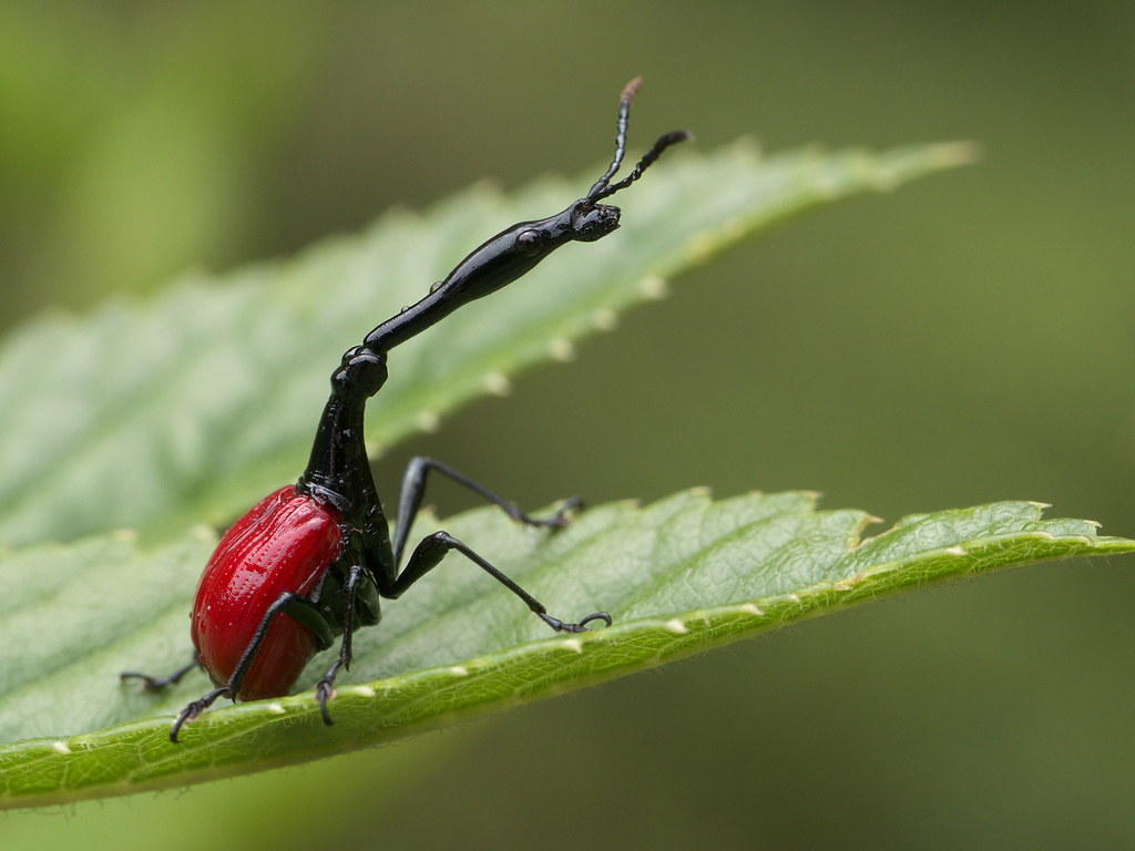 Weevi giraffe (Trachelophorus giraffa) in Ranomafana national park, madagascar